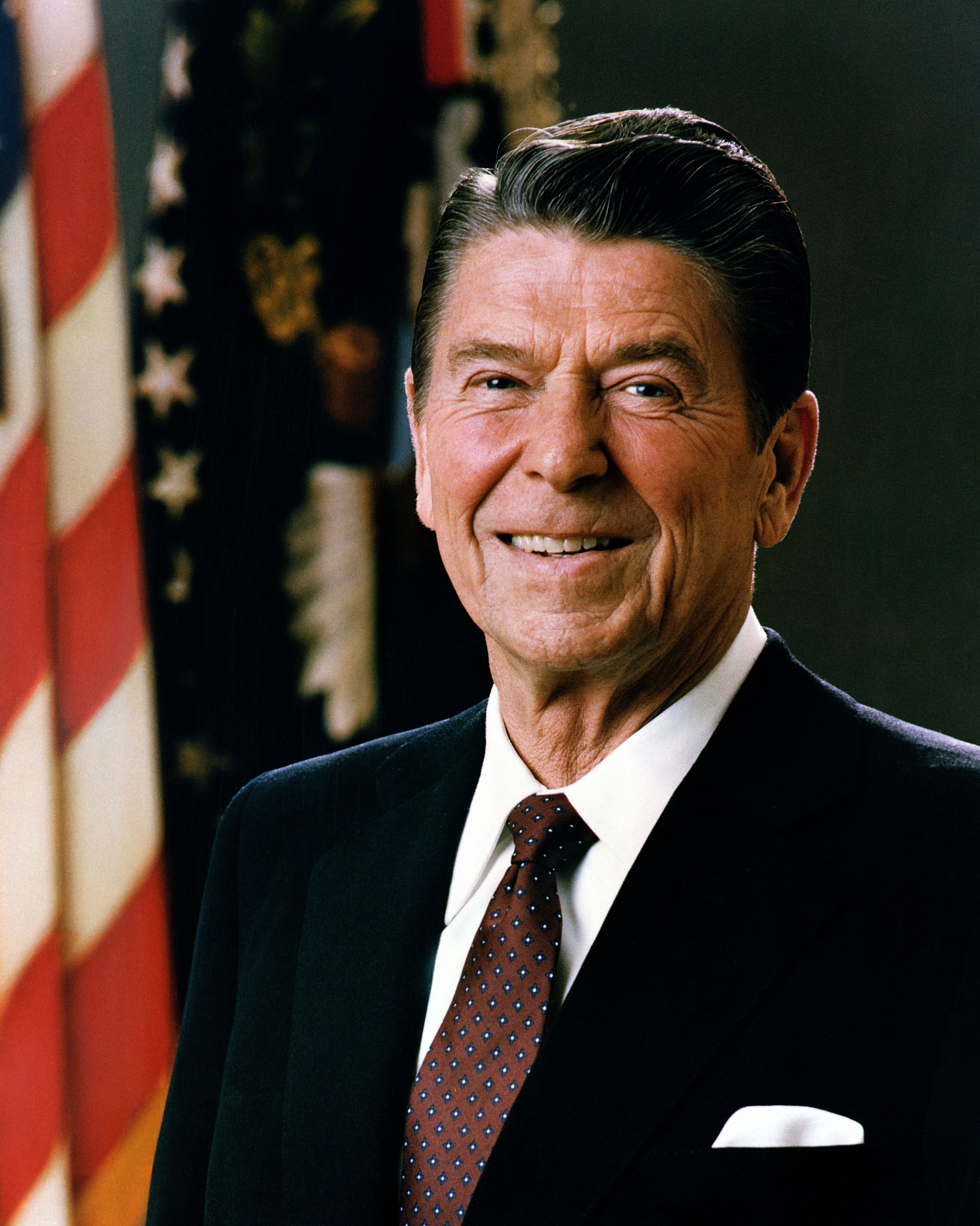 Official Portrait of President Ronald Reagan